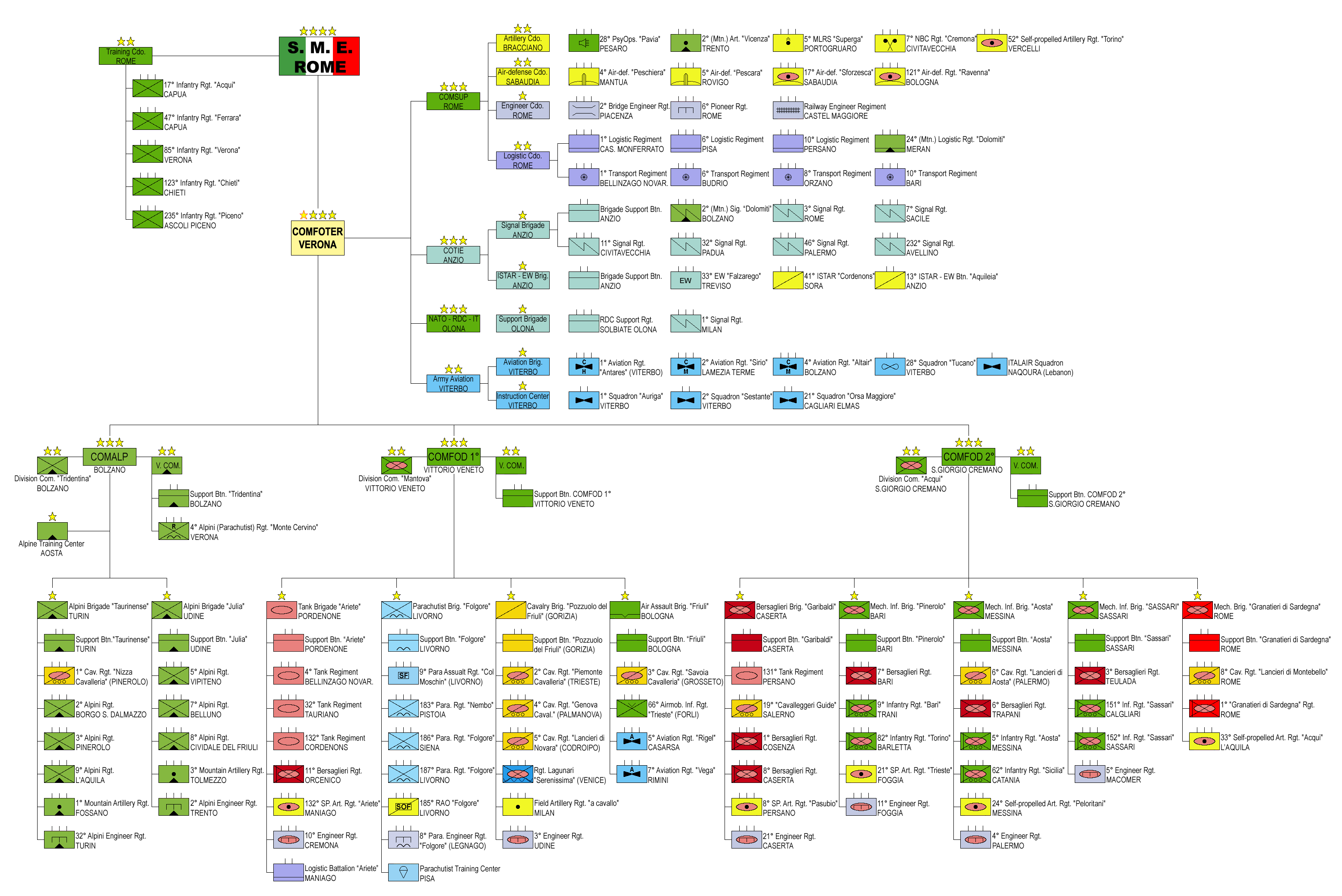 Structure of the Italian Army 2008